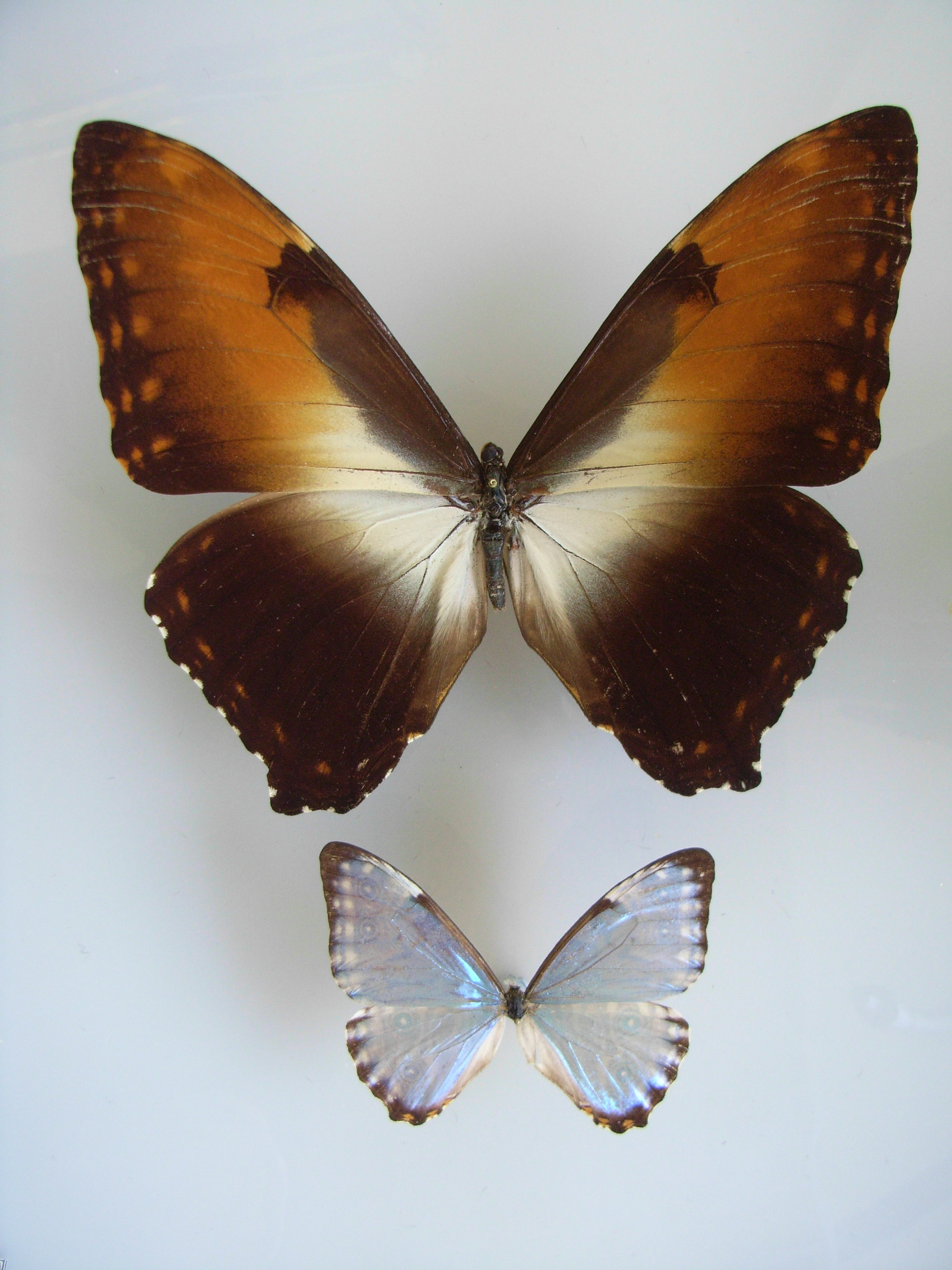 Morpho hercules (top) and Morpho thamyris.Size comparison